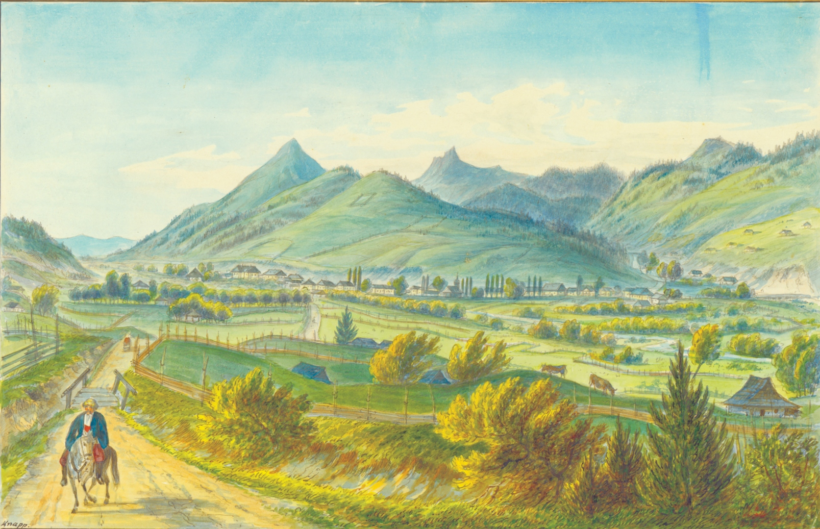 Dorna Watra